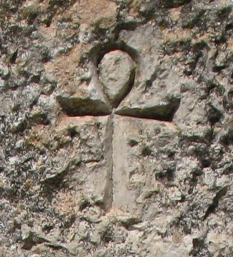 Ankh, from Flinders Petrie headstone, Jerusalem, Isreal